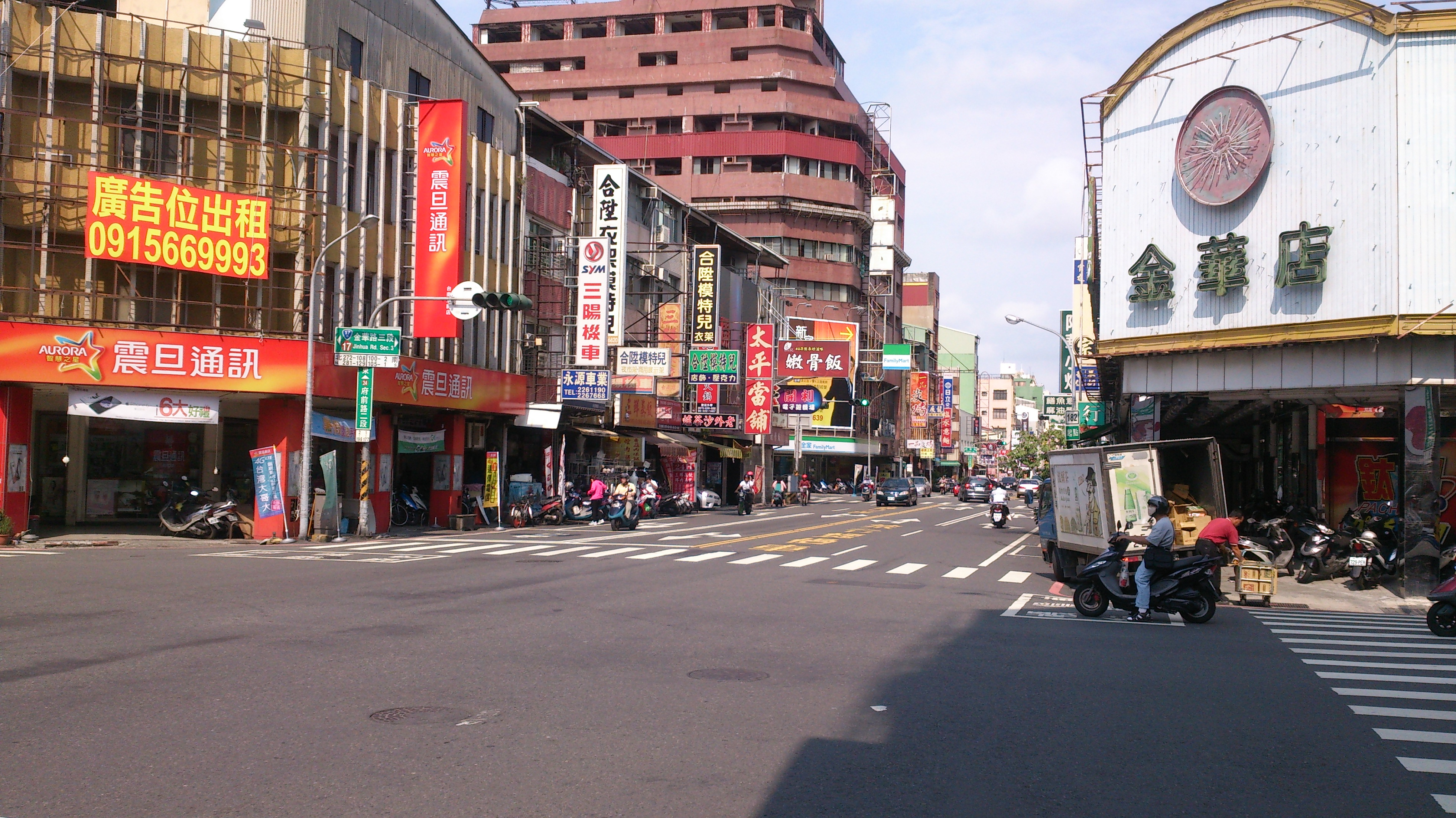 The photo shows where the route 182 in Taiwan starts.